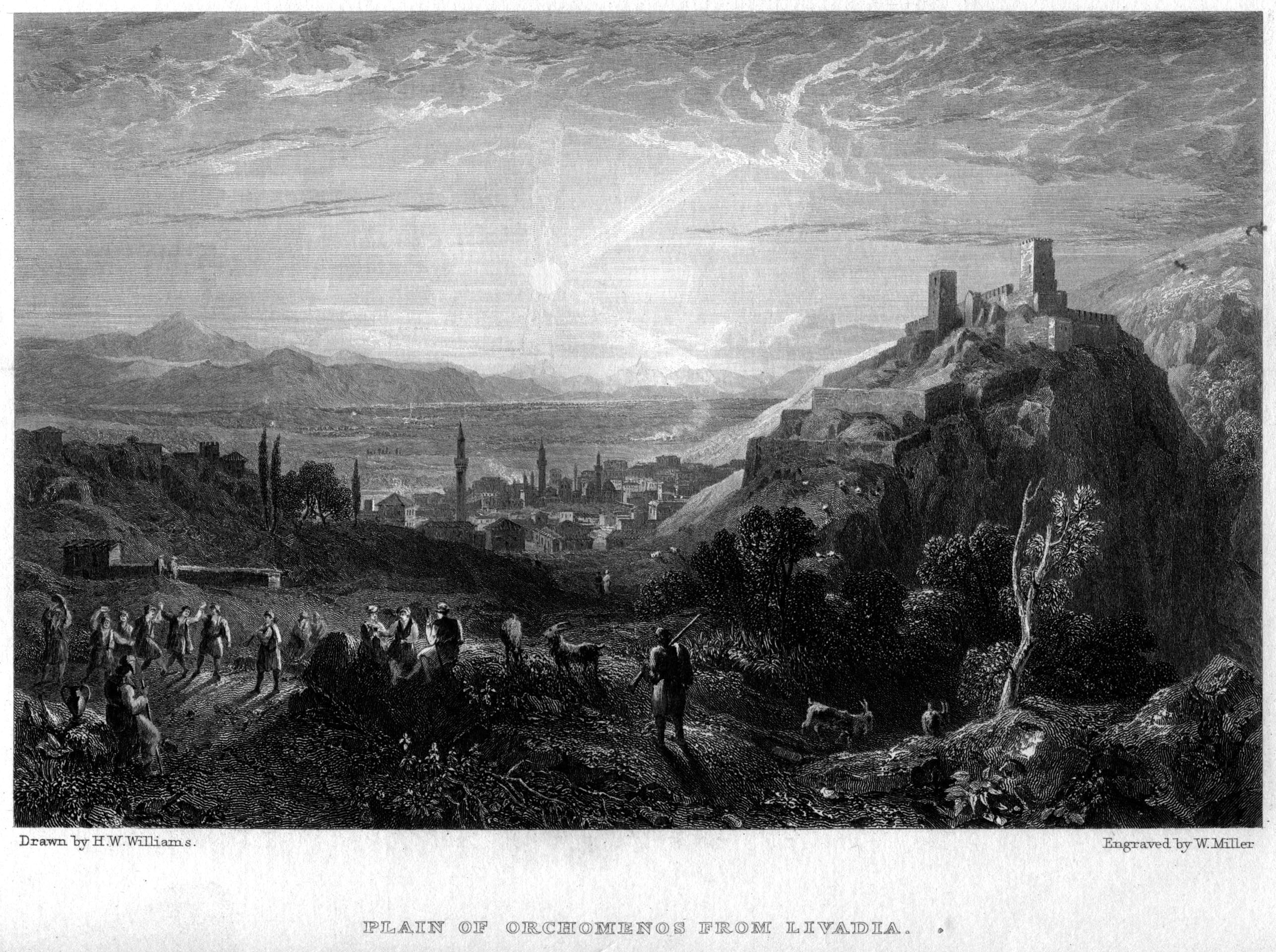 Plain of Orchomenos from Livadia engraving by William Miller after H W Williams (Miller paid £21-0-0 in i 1829 for engraving), published in Select Views In Greece With Classical Illustrations. Williams, Hugh William. London: Longman Rees Orme Brown and Green; and Adam Black. 1829